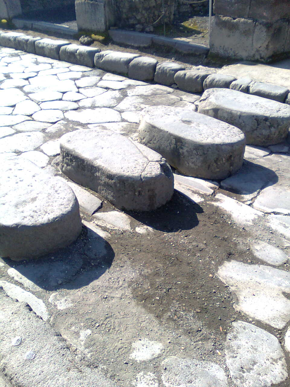 Pedestrian crossings in the archaeological area of Pompeii.